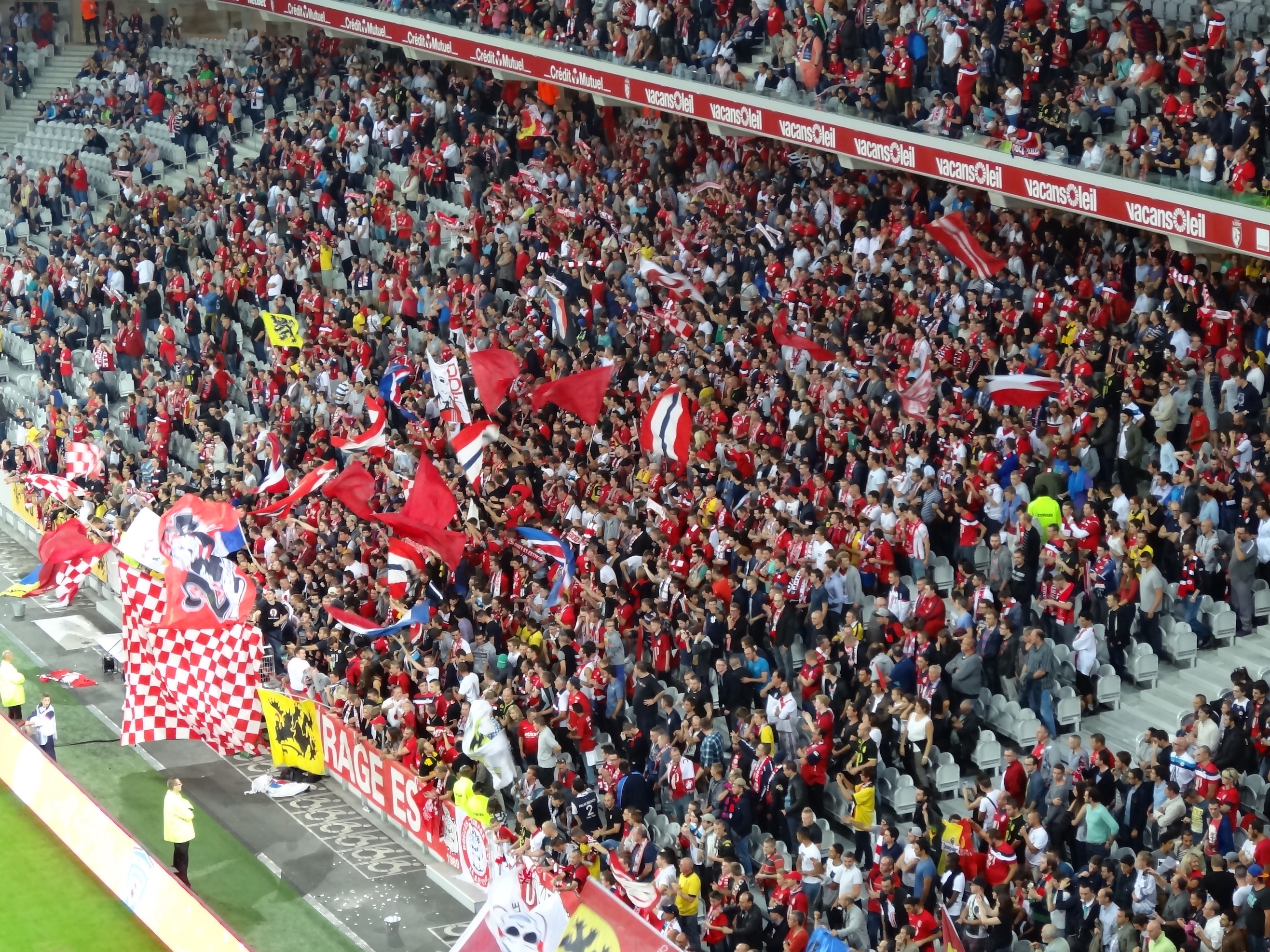 LOSC Kop